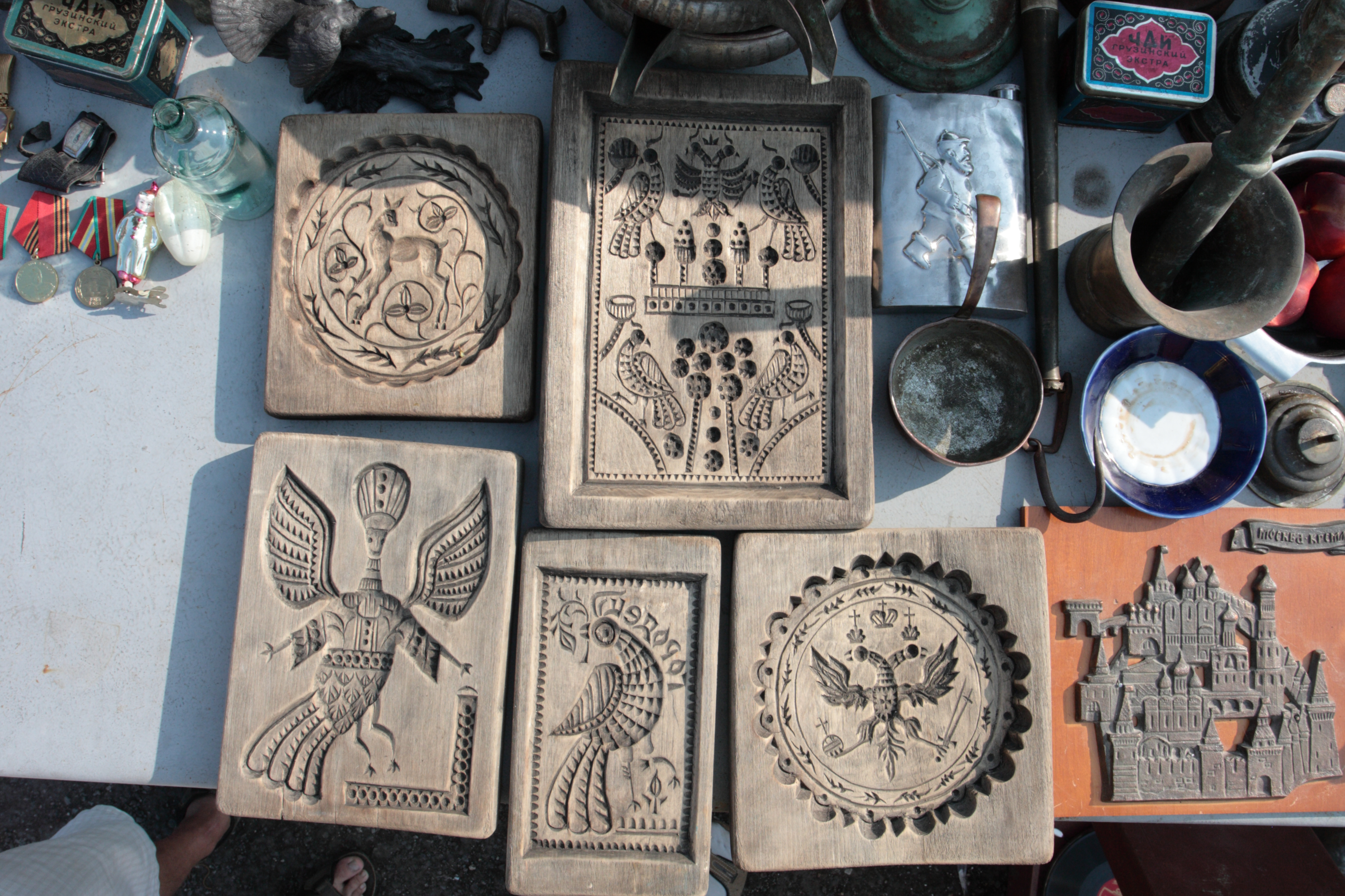 Gorodets gingerbread printing forms.